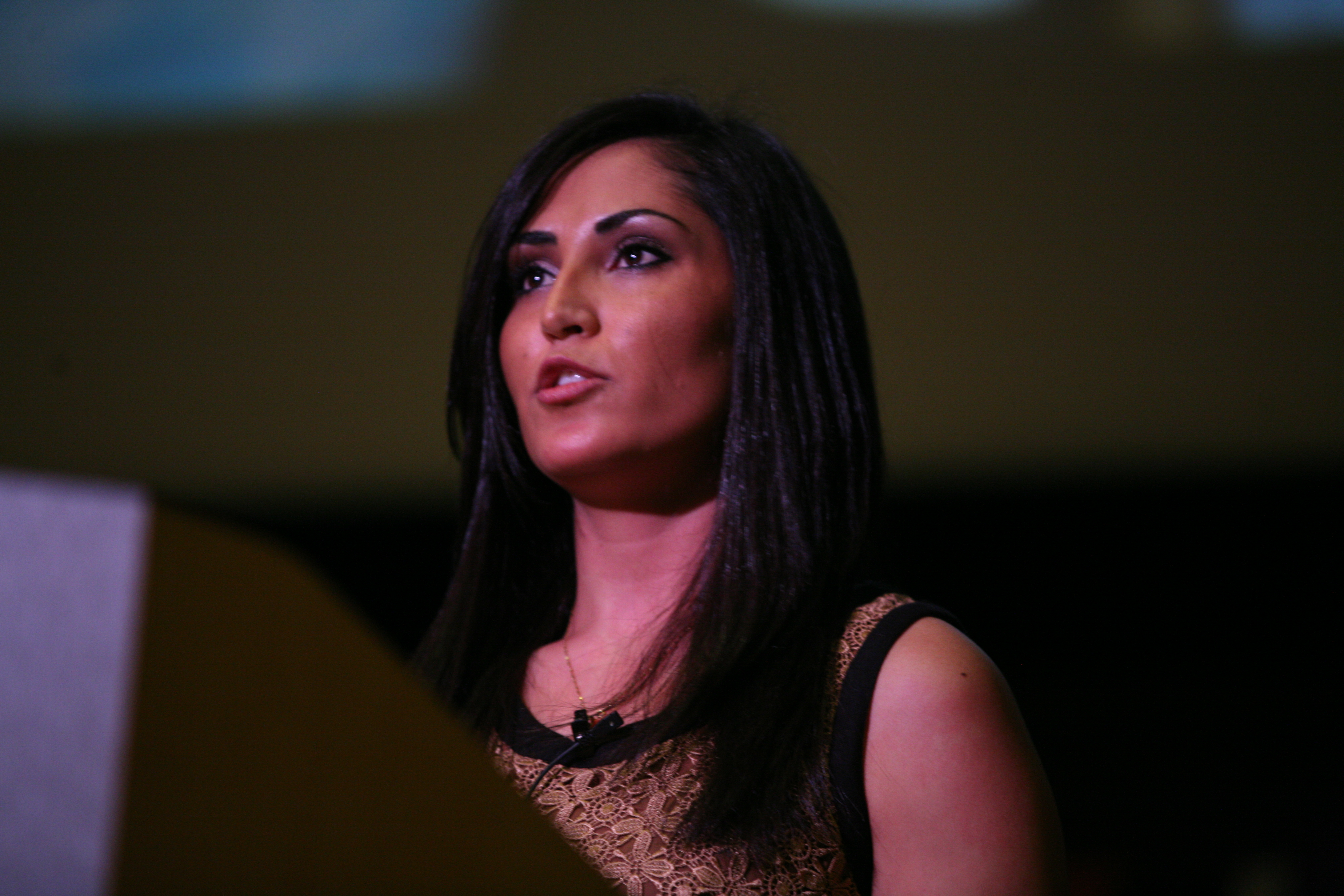 Shamila Kohestani, founder of the first Afghan women's national soccer team, speaks about women in sports.